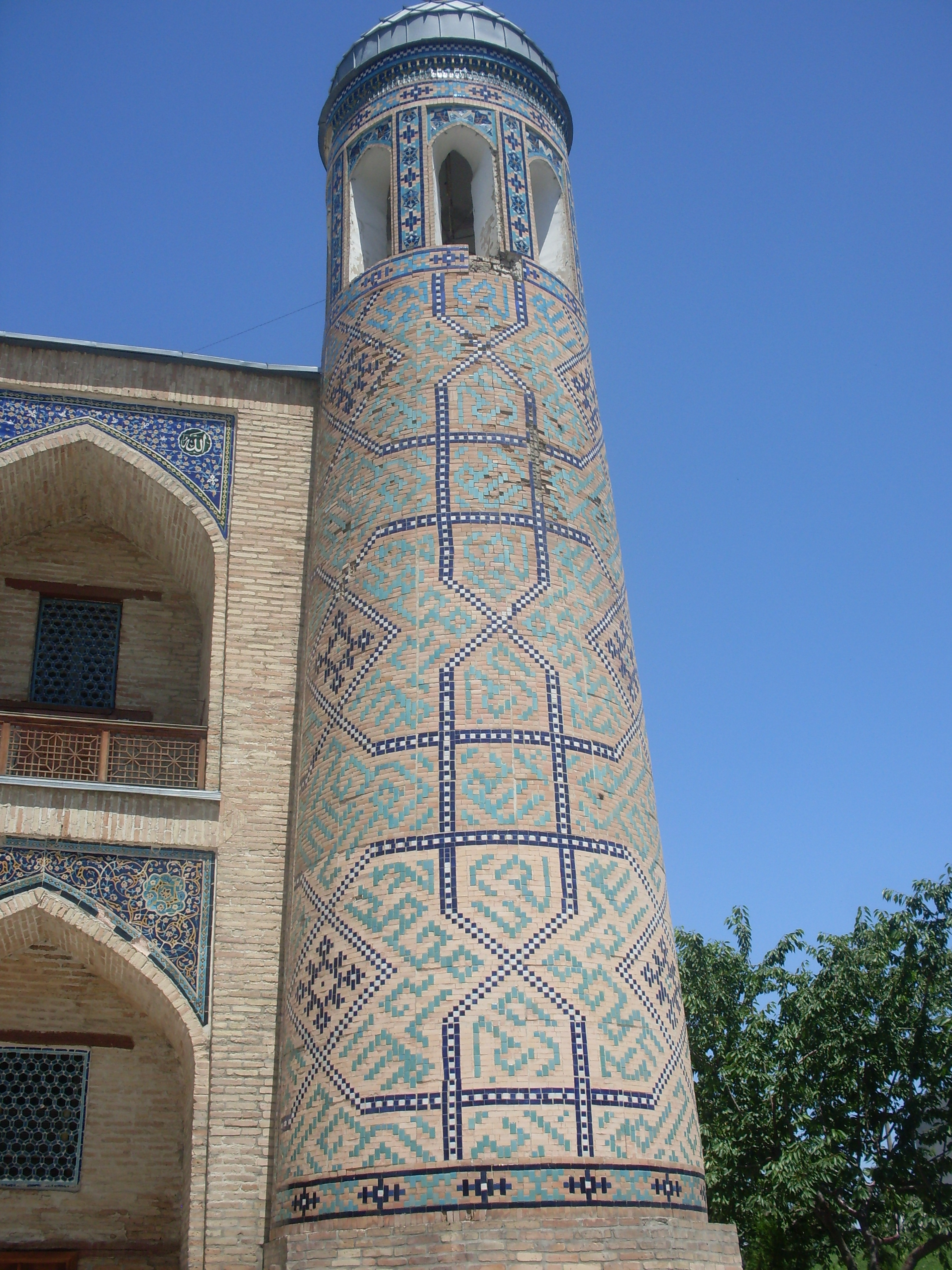 Madrasah Kukaldash (Tashkent)